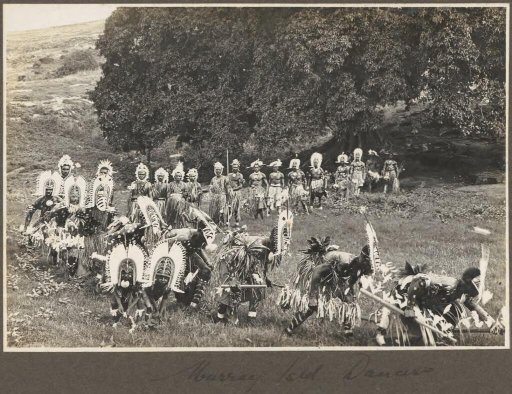 Hurley, Frank, 1885-1962 Persistent URL